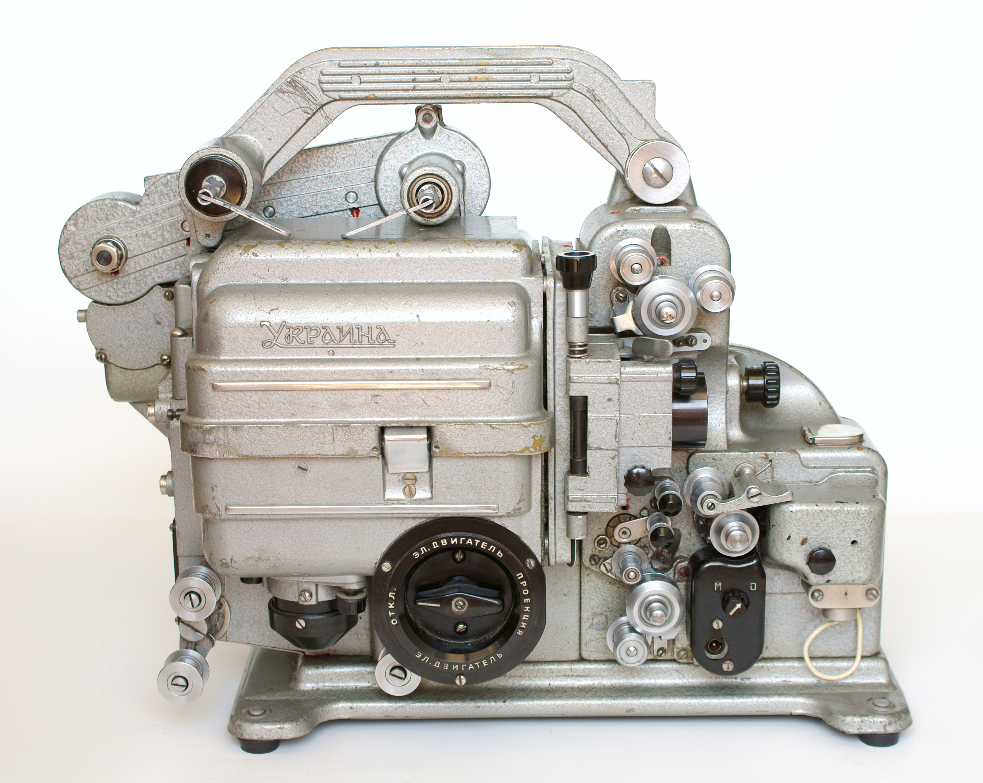 Soviet 16mm film projector Ukraina.